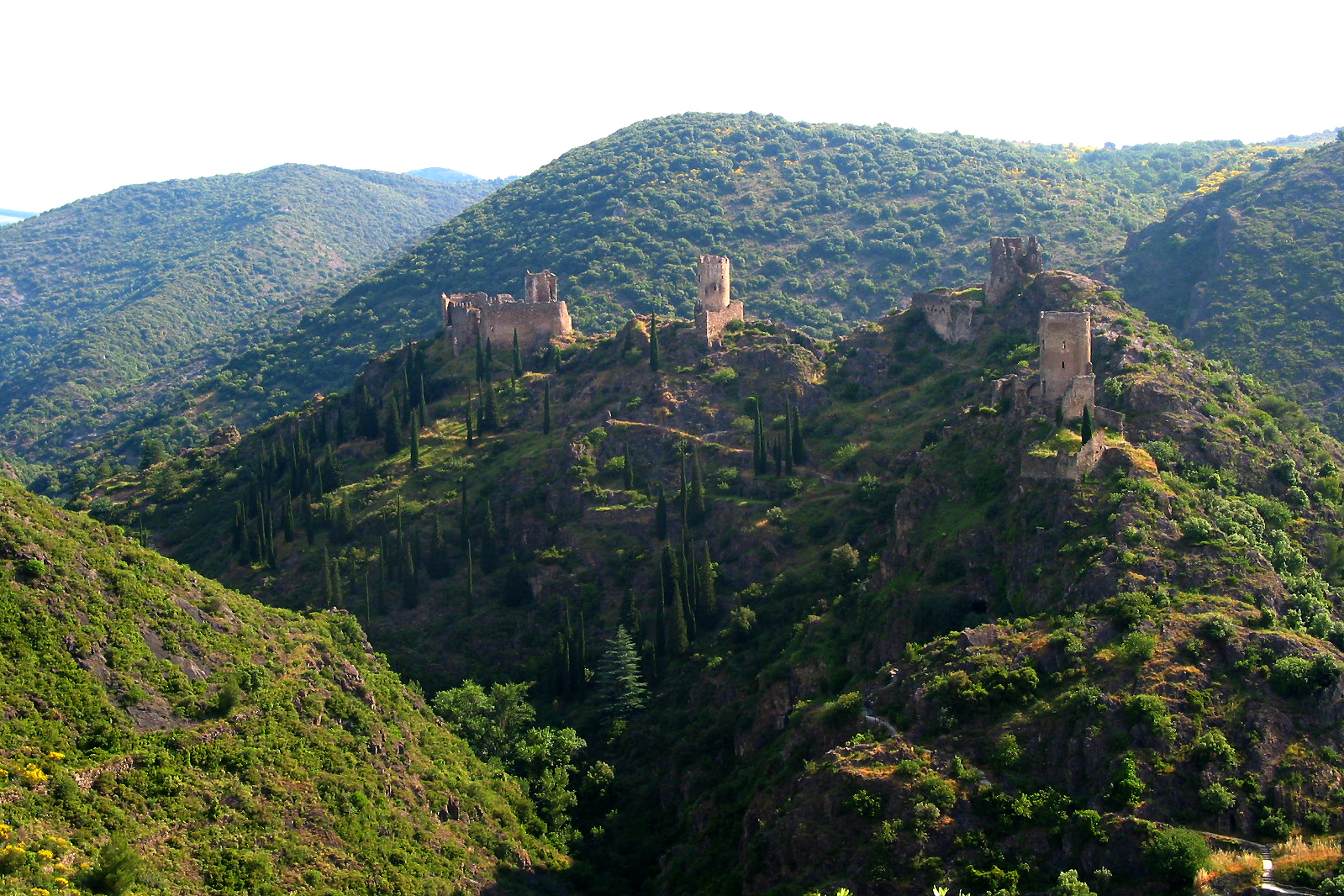 Lastours (Aude - France), the Châteaux de Lastours (XIth century).